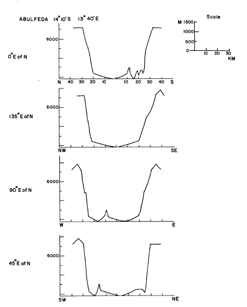 Abulfeda crater cross section